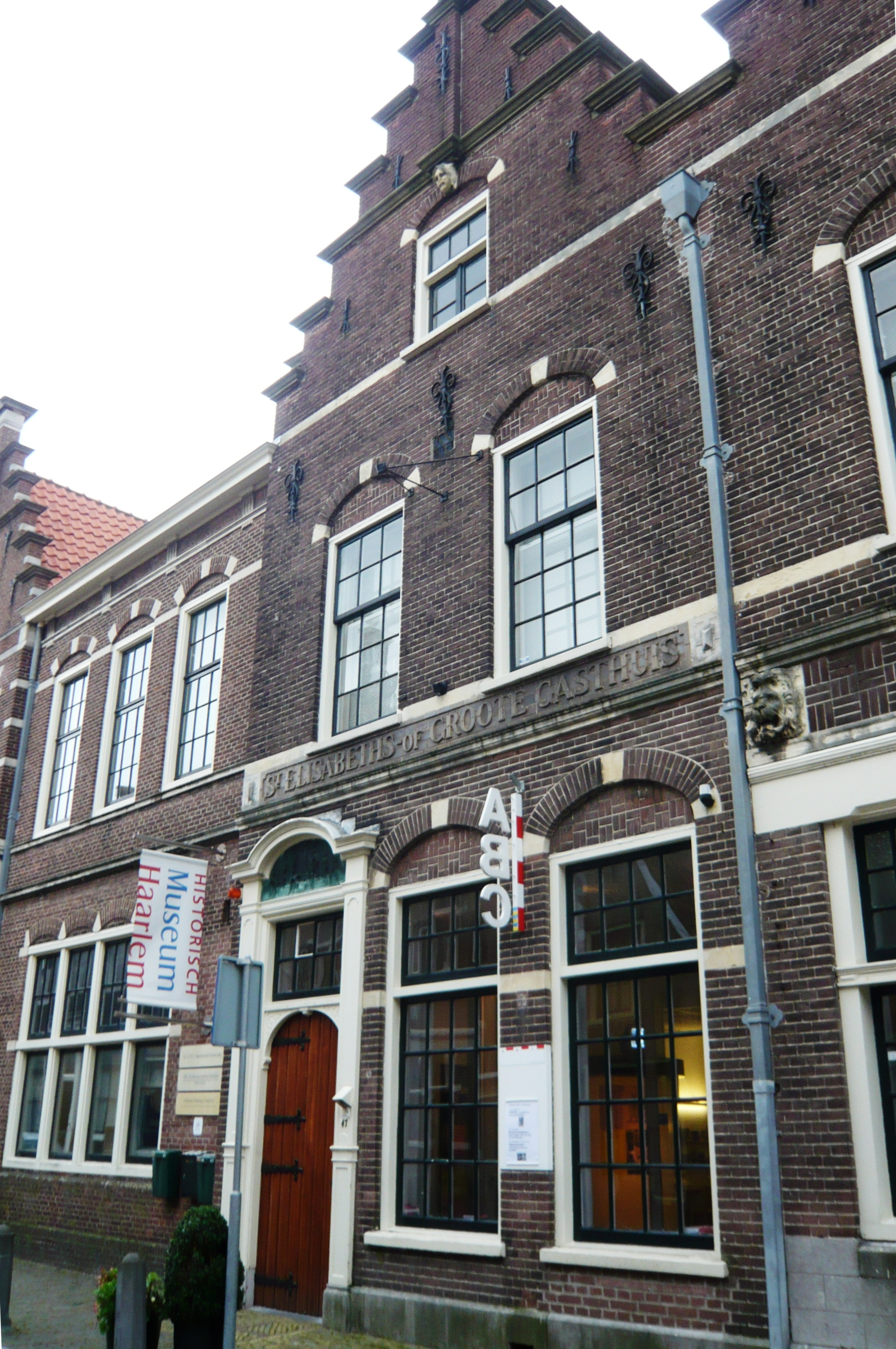 Entrance to the Haarlem Historisch Museum and the ABC Architectuur Museum. Former entrance to the polyclinic of the St. Elisabeth Gasthuis hospital, which closed in 1970. Haarlem Historisch Museum - Groot Heiligland 47